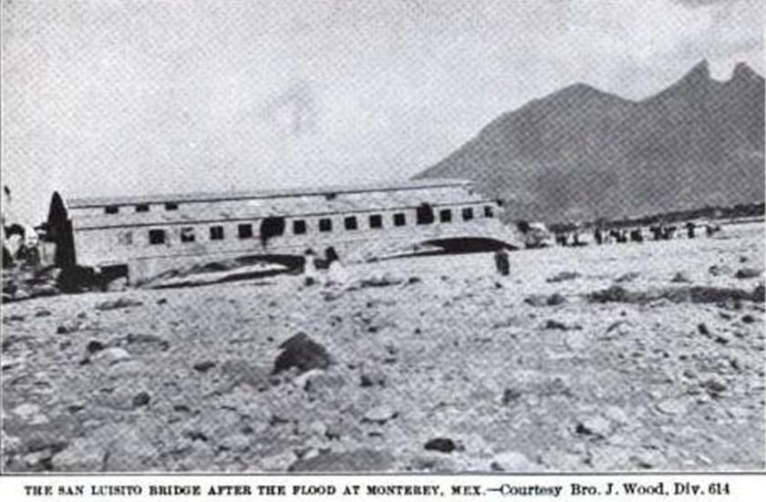 The San Luisito Bridge after the flood in Monterrey Mexico by J. Wood 1909 From: Locomotive Engineers Journal Published by Brotherhood of Locomotive Engineers, 1909.